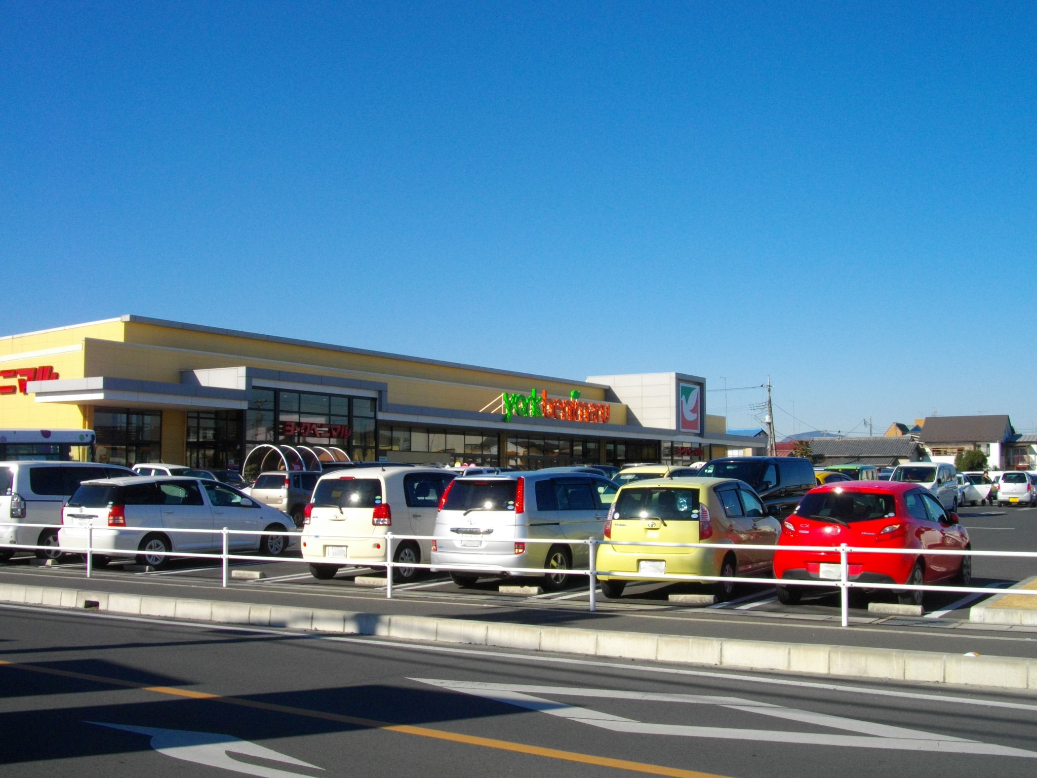 York Benimaru Tochigi-Iwaicho